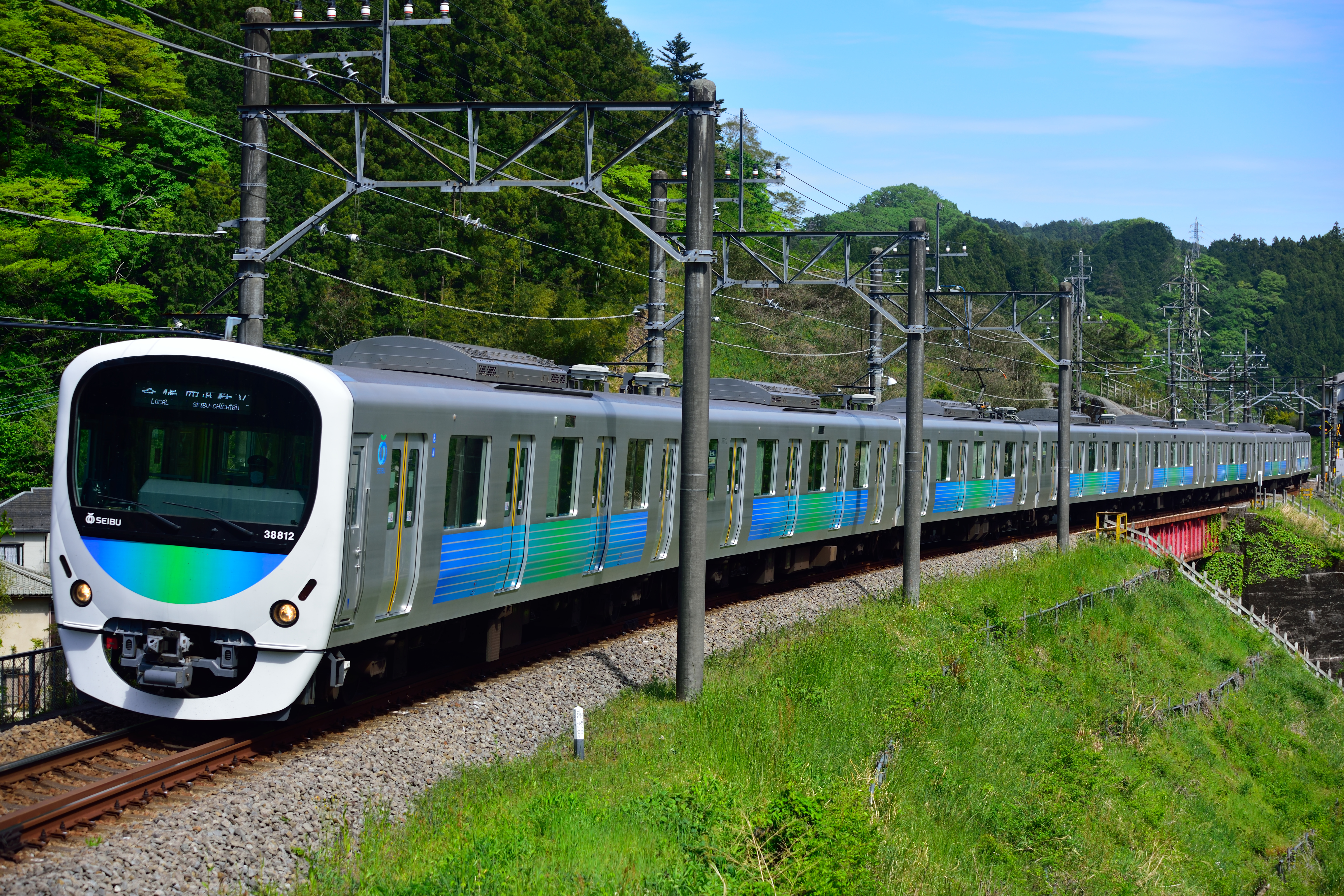 Seibu Railway 30000 series 8-car EMU set 38112 on the Seibu Ikebukuro Line between Agano and Higashi-Agano stations